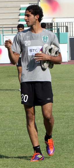 Amad Ali Suleiman Al Hosni, also spelled "Imad" (Arabic: عماد علي الحوسني), (born 18 July 1984) is an Omani footballer.